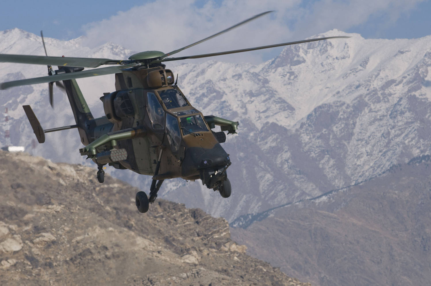 A French Army AH Tigre helicopter takes off and heads out to participate in a joint U.S. and French live fire helicopter exercise at Forward Operating Base Morales-Frazier Jan. 23. The exercise consisted of a pre-mission brief, walk around of aerial assets, and live-fire practice on the FOB’s Blue Max range. Pilots and combat ground controllers took the opportunity to practice communication between the two forces. (Photo by: U.S. Air Force Staff Sgt. Kyle Brasier)